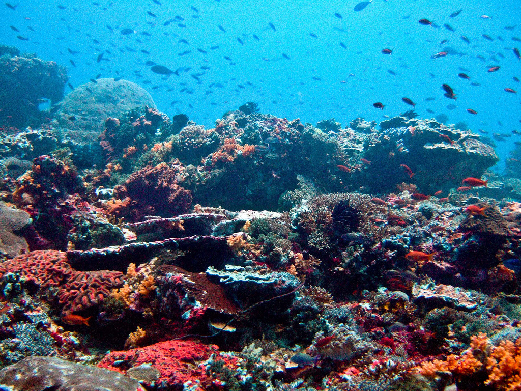 Scuba diving Bali Nusa Lembongan, Coral Reef off Nusa Lembongan, Bali.